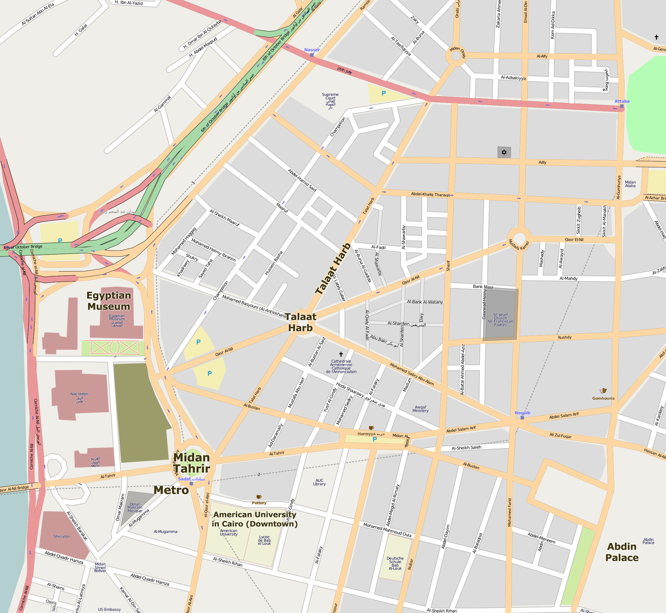 Map of downtown Cairo (see also :Image:Downtowncairomap.svg Source: OpenStreetMap map: Cairo Map of: Cairo